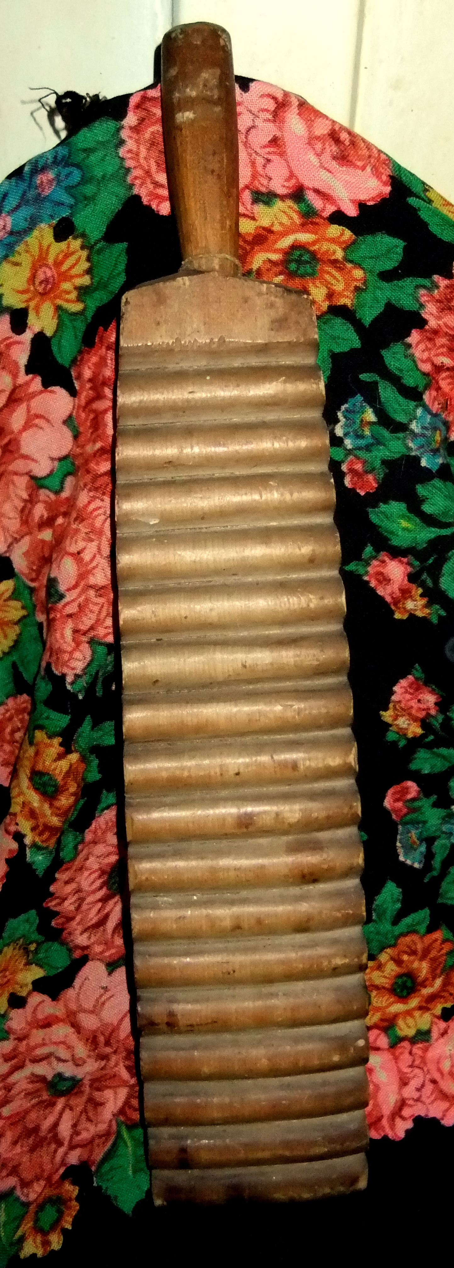 Рубель